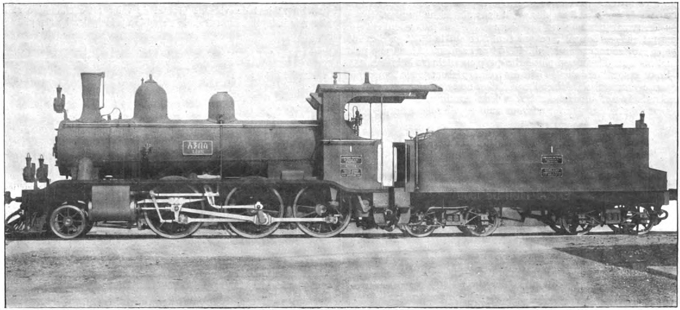 አንበሣ (የመጀመሪያው ባቡር)